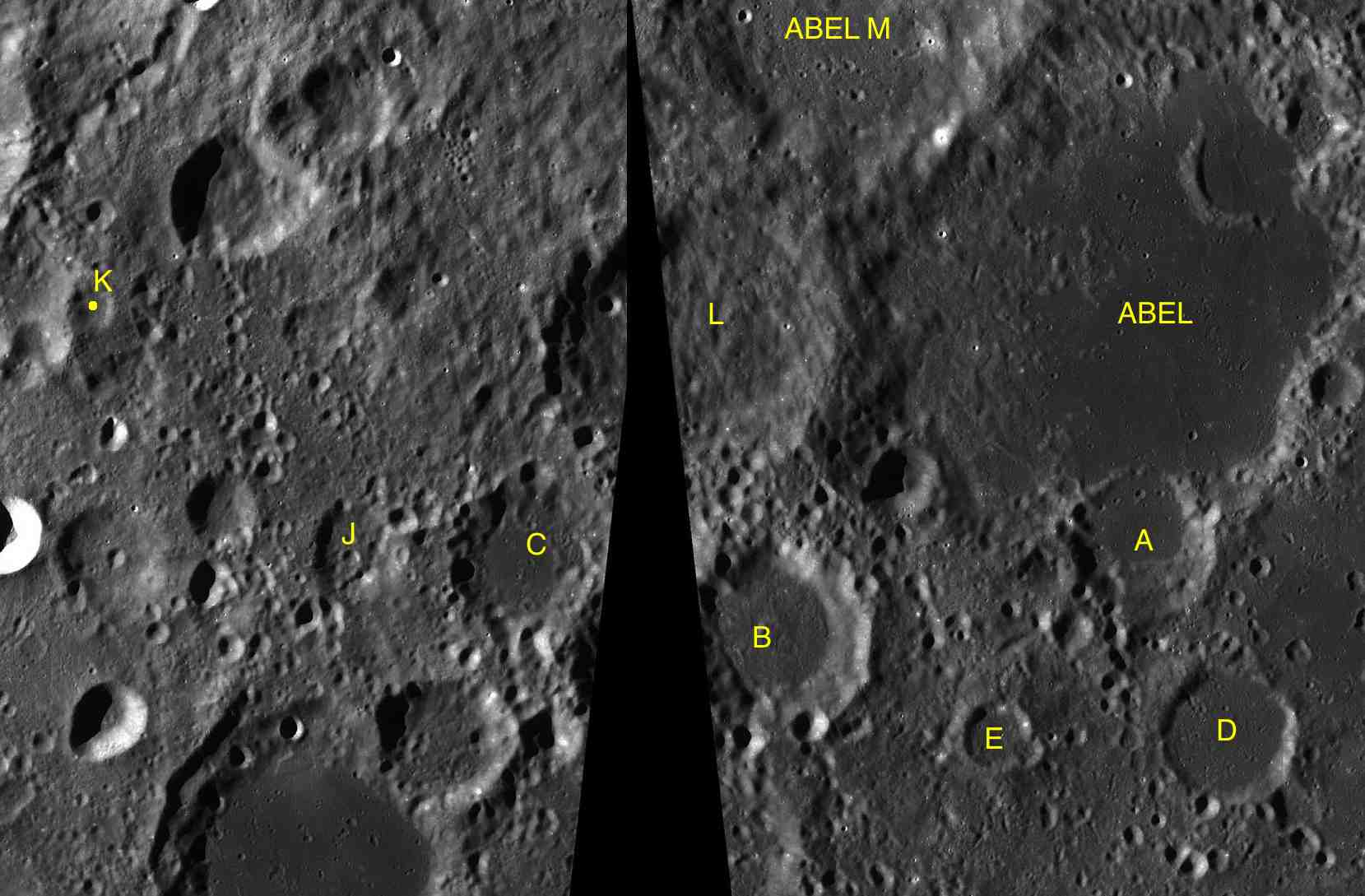 Parts of the charts LAC-115, LAC-116 used for the presentation